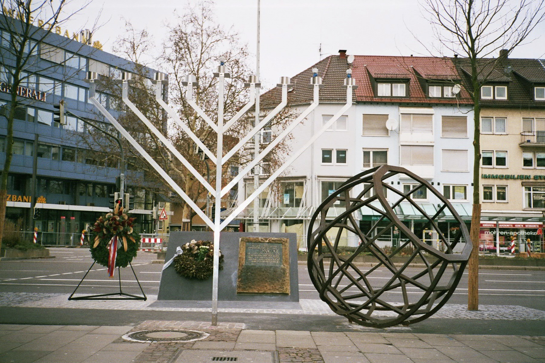 Heilbrnn-synagogengedenkstein 1.JPG